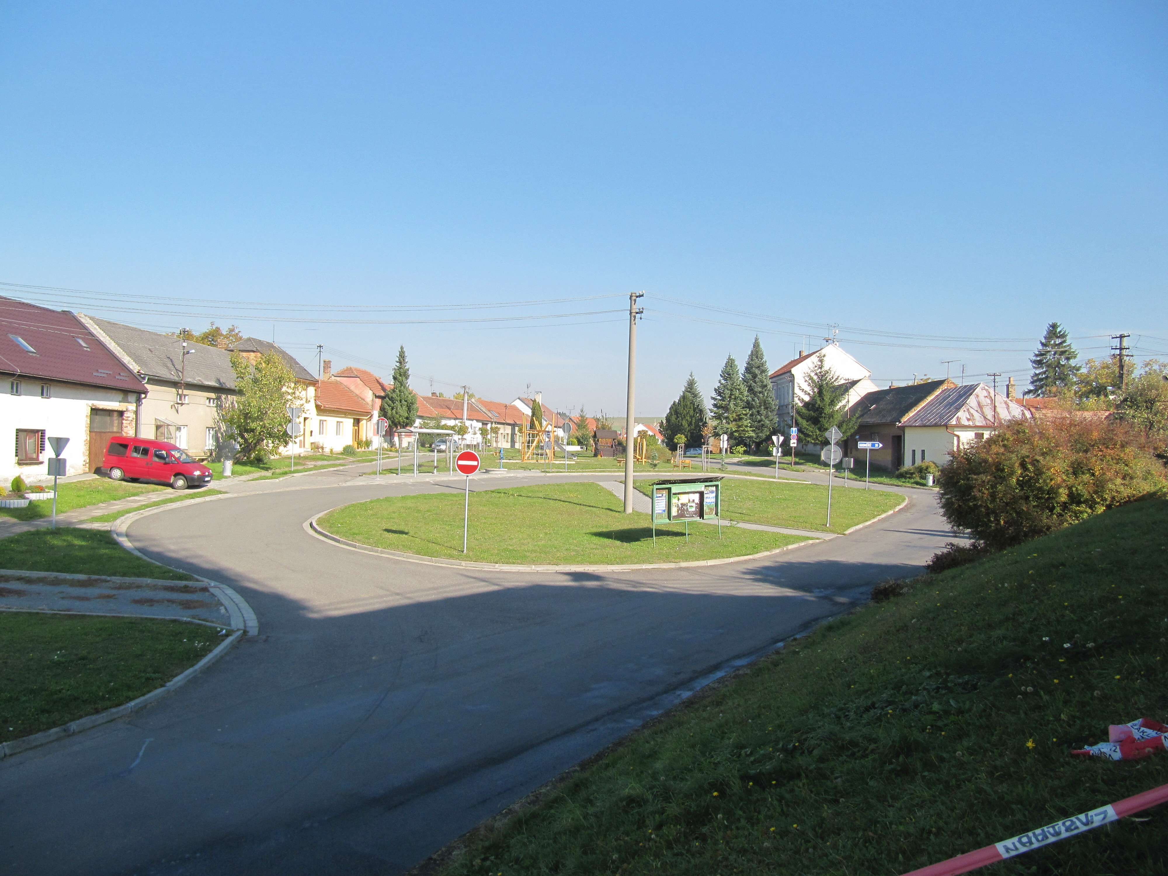 Chvalnov-Lísky in Kroměříž District, Czech Republic, part Chvalnov. View of the village square from the church of St. James.